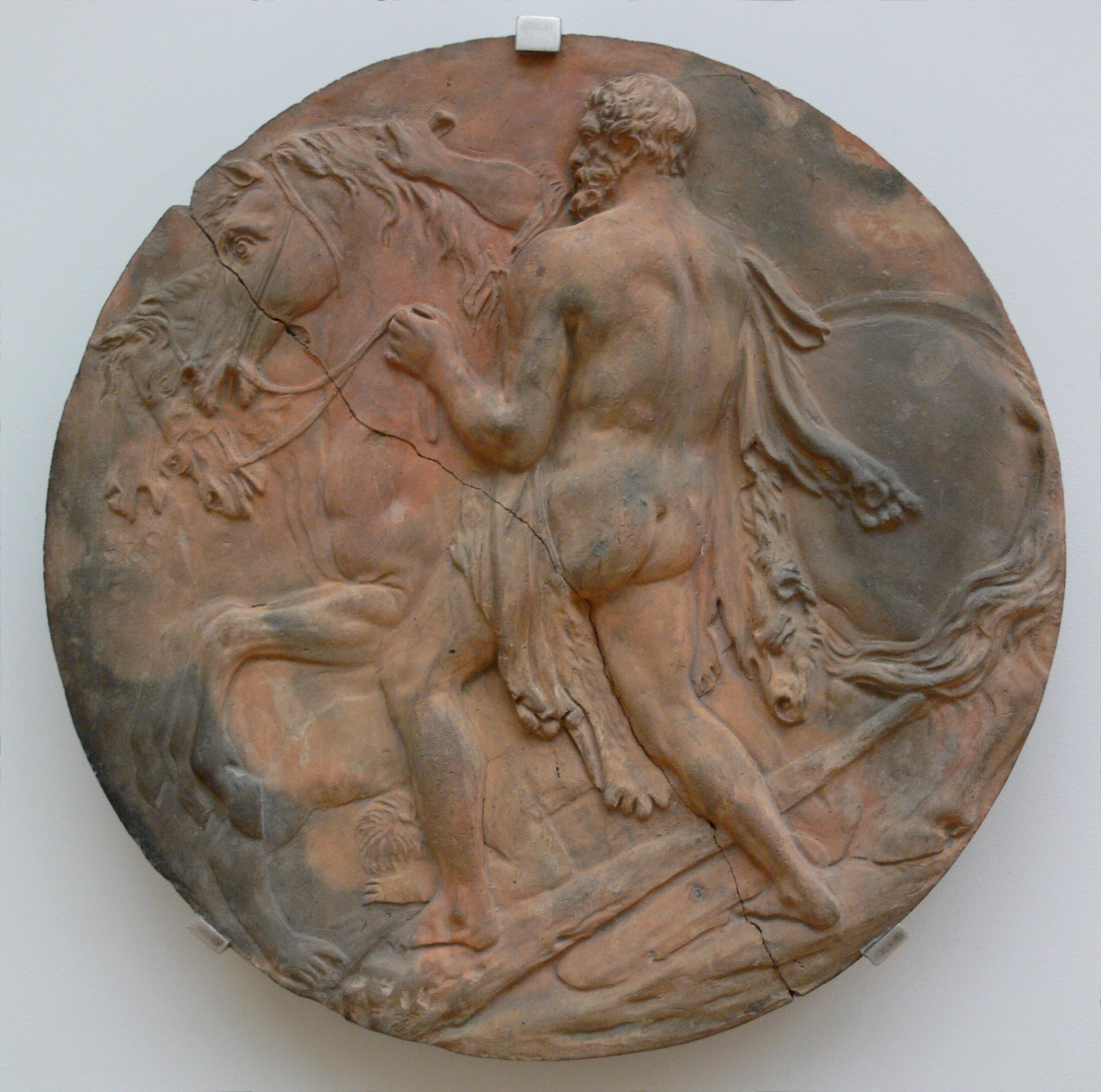 Johann Gottfried Schadow: Hercules and the Mares of Diomedes, terracotta relief, Berlin, c. 1790 (model for one of the tondos of the Brandenburg Gate). Skulpturensammlung, Bode-Museum Berlin.